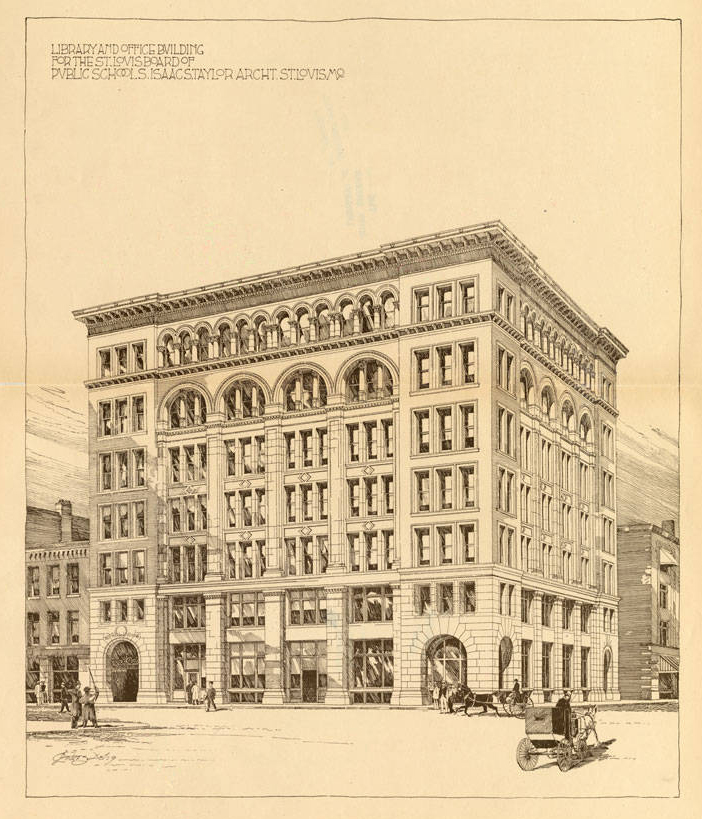 Isaac Taylor's Board of Education Building, St Louis (USA), from pre-1923 issue of Inland Architect and News Record.